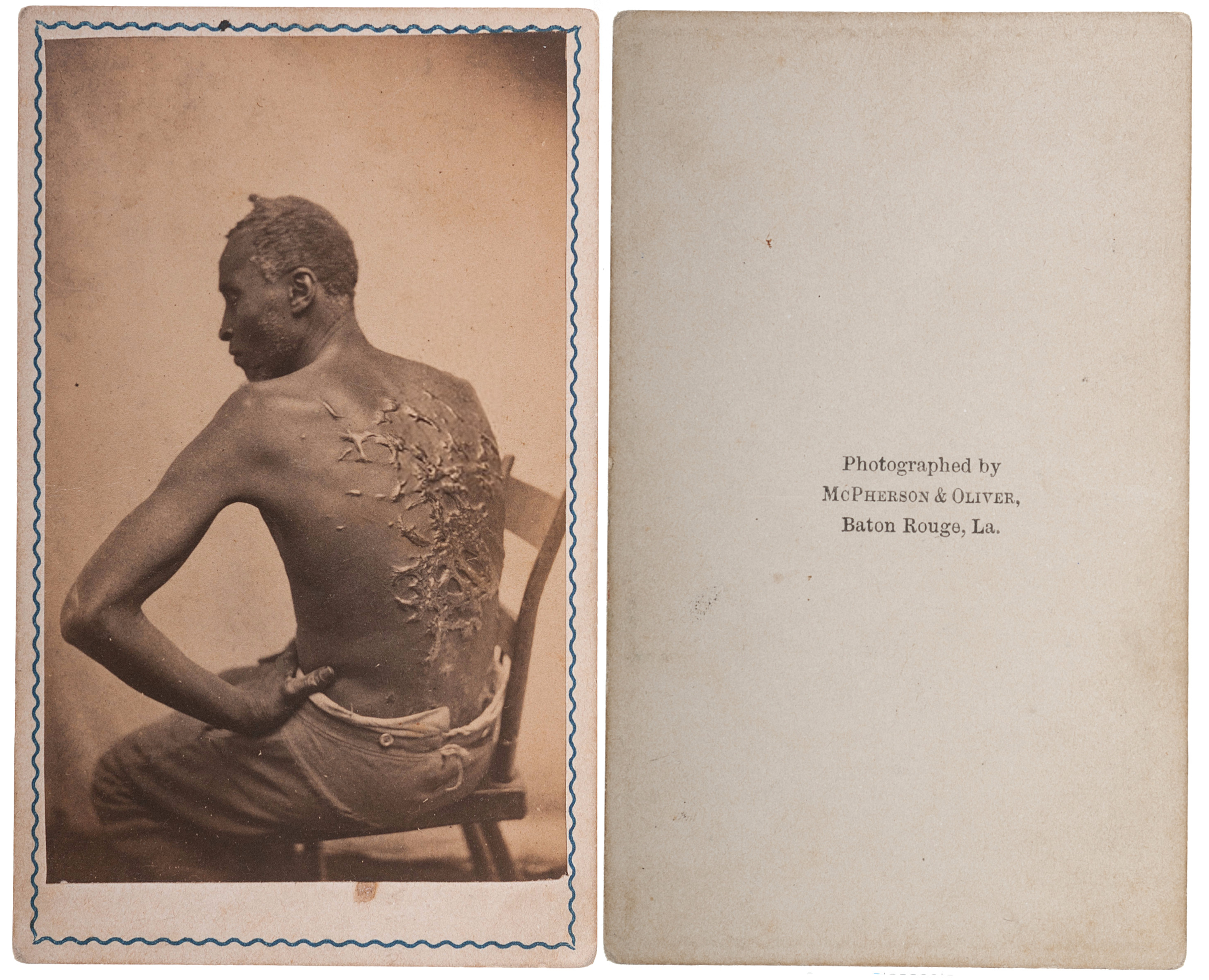 Rare CDV of the Escaped Slave "Gordon" Displaying His Scars.